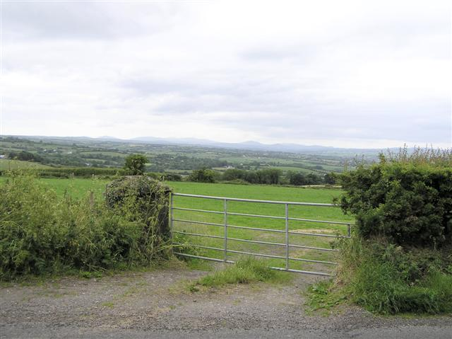 Rabstown, near Sion Mills. Rab can relate to this one..